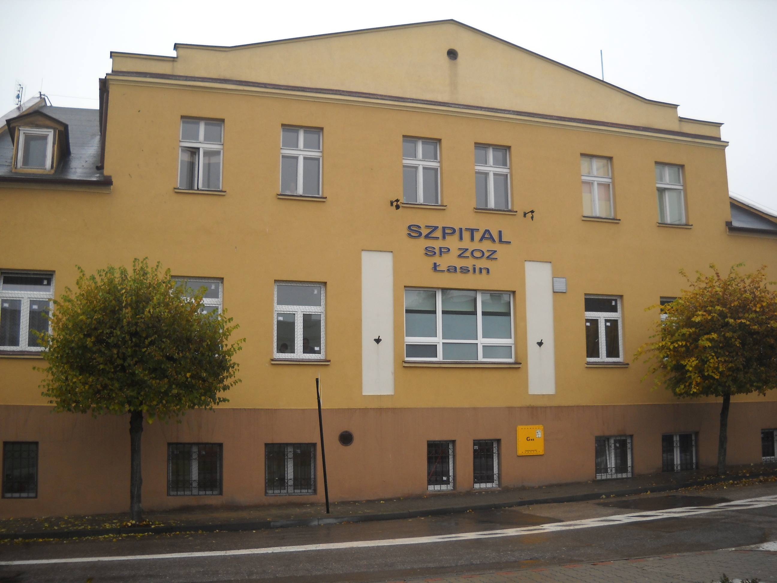 Łasin Hospital